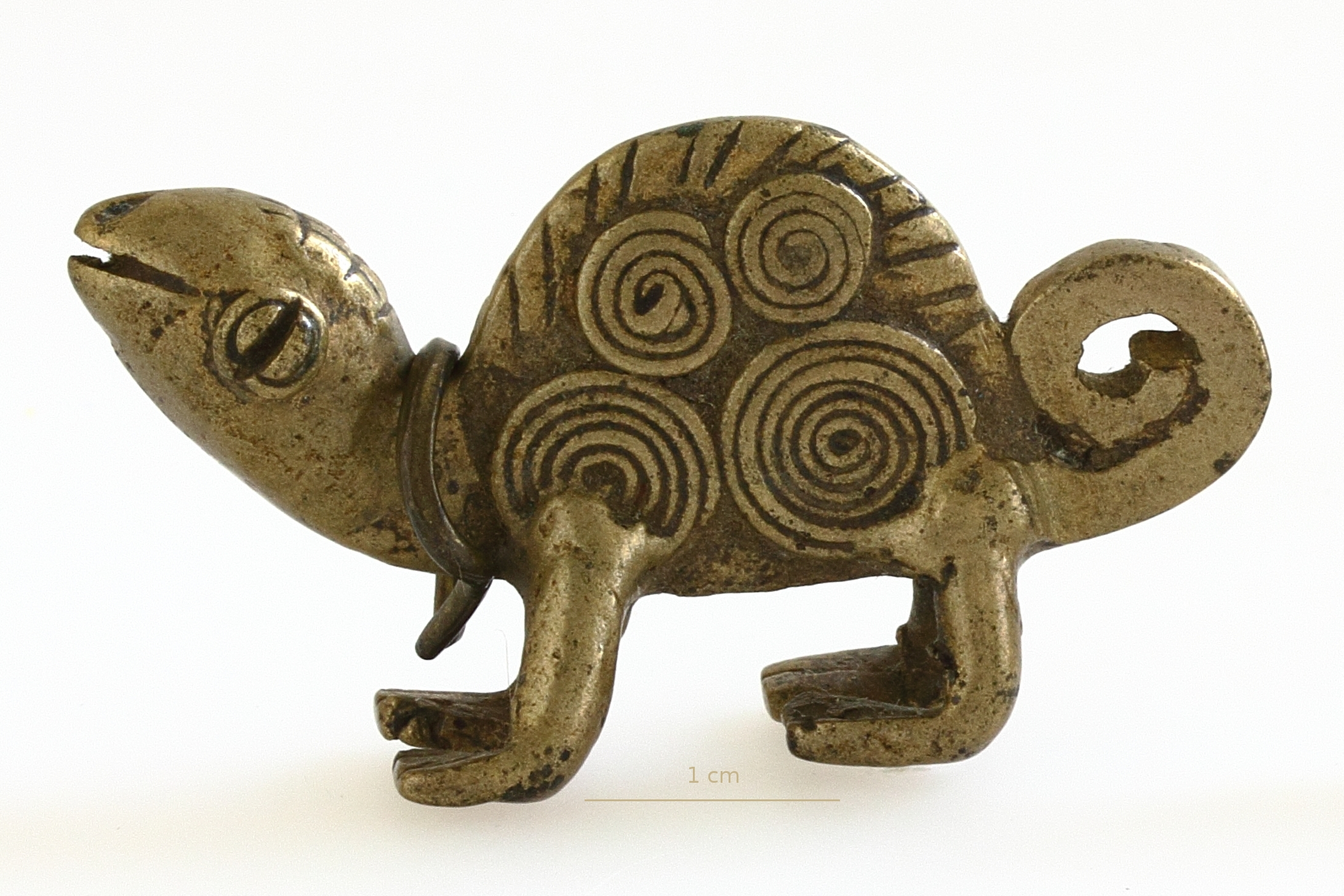 Ghanaian weight used in the weighing of gold from the collection of ethnology of the Muséum de Toulouse. MHNT.ETH.2010.25.65